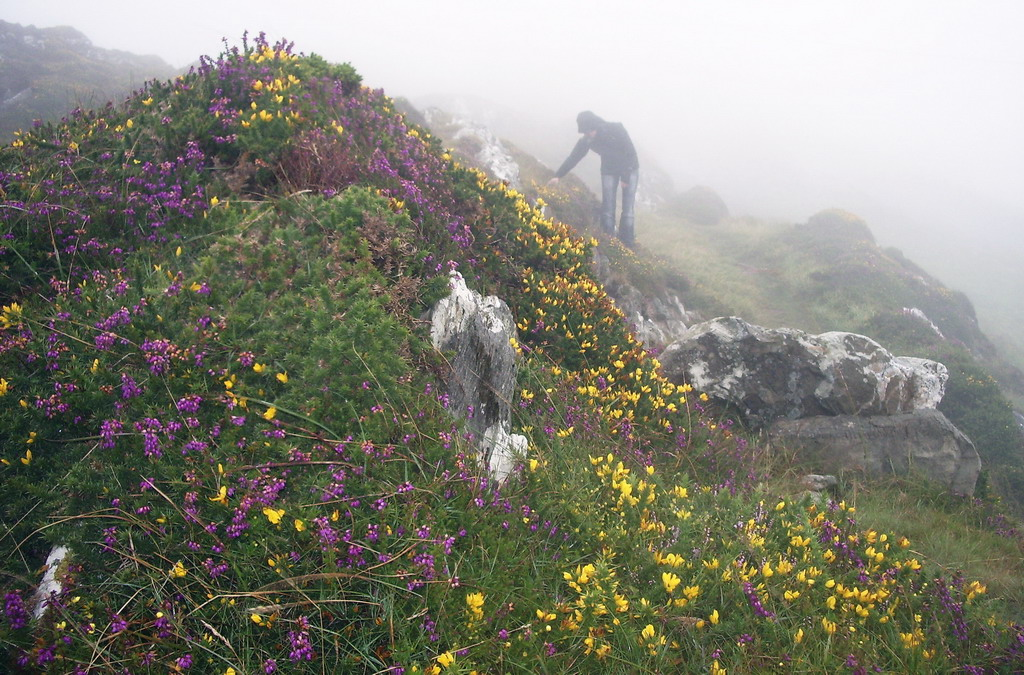 Genisto Callunion heath — with Ulex gallii and Erica cinerea. On Sheep's Head Peninsula, County Cork, Ireland